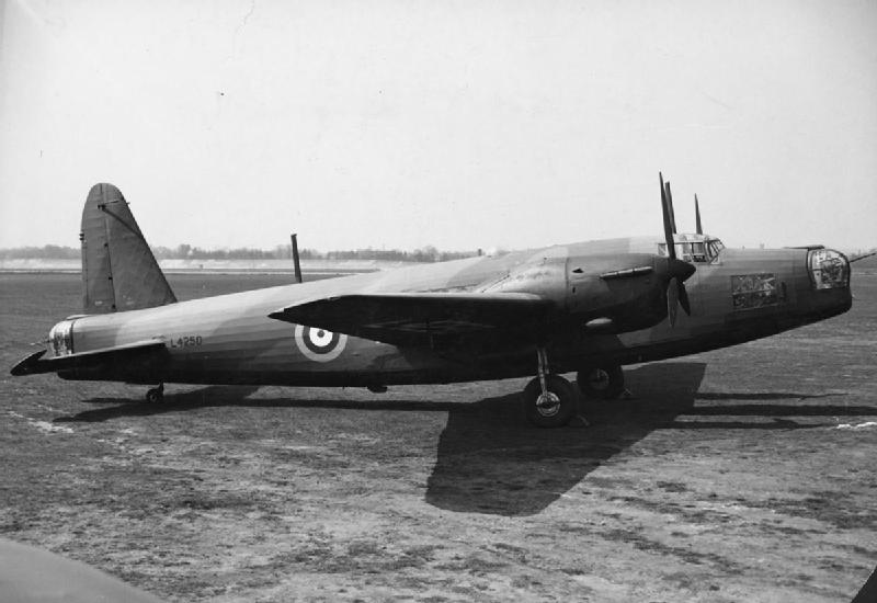 RAF Bomber Command Vickers Wellington Mk II prototype L4250, 1940.